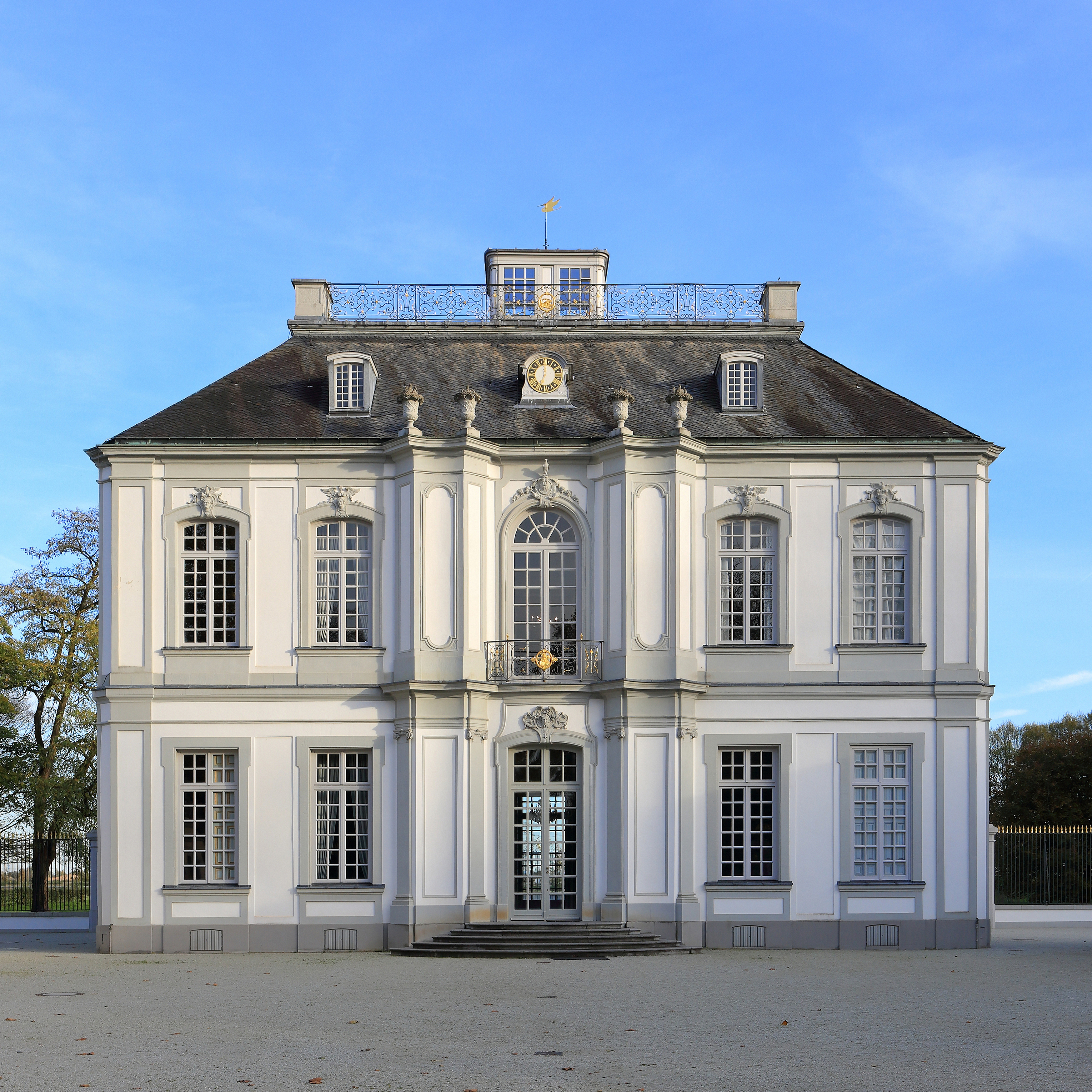 The western facade of Schloss Falkenlust. The Augustusburg and Falkenlust Palaces form a historical building complex in Brühl, North Rhine-Westphalia, Germany, which has been listed as a UNESCO World Heritage Site since 1984. The buildings are connected by the spacious gardens and trees of the Schlosspark.